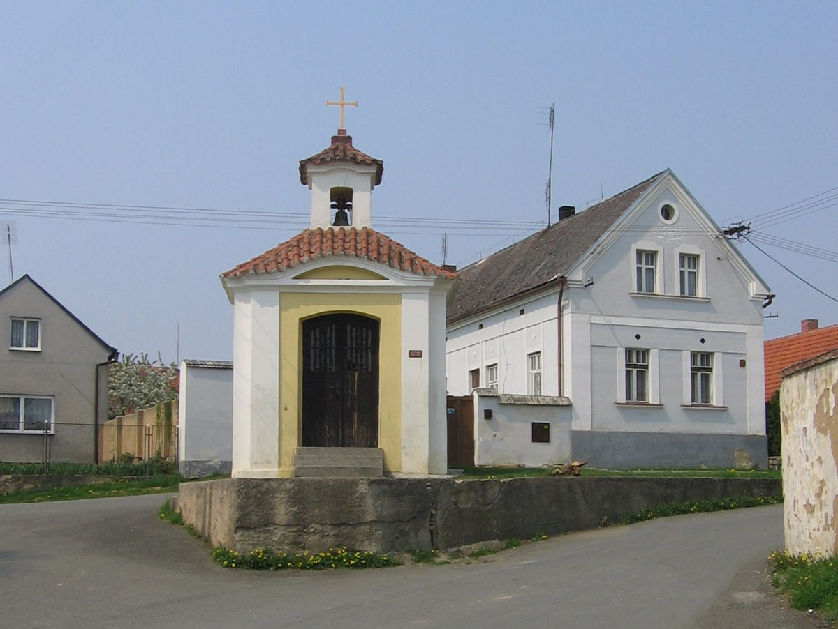 Village chapel in Plešnice